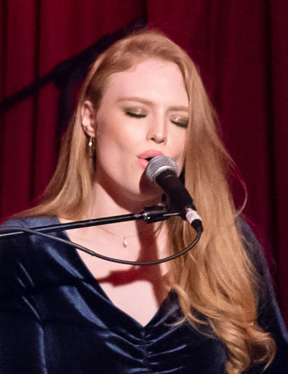 Freya Ridings performing live at the Hotel Cafe in Hollywood, Los Angeles, California.